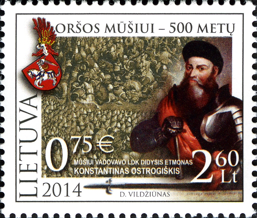 Stamps of Lithuania, 2014